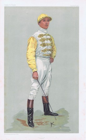 Caricature of Mr DA Maher. Caption read "Danny".